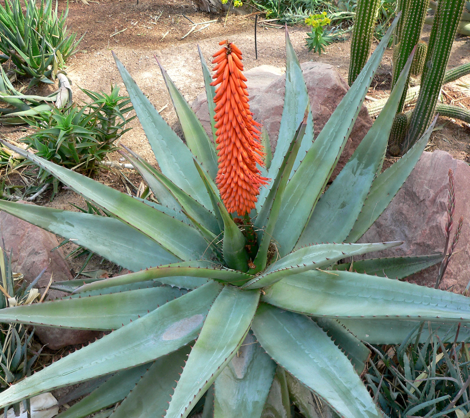 Aloe ferox at the Springs Preserve garden, Las Vegas, Nevada